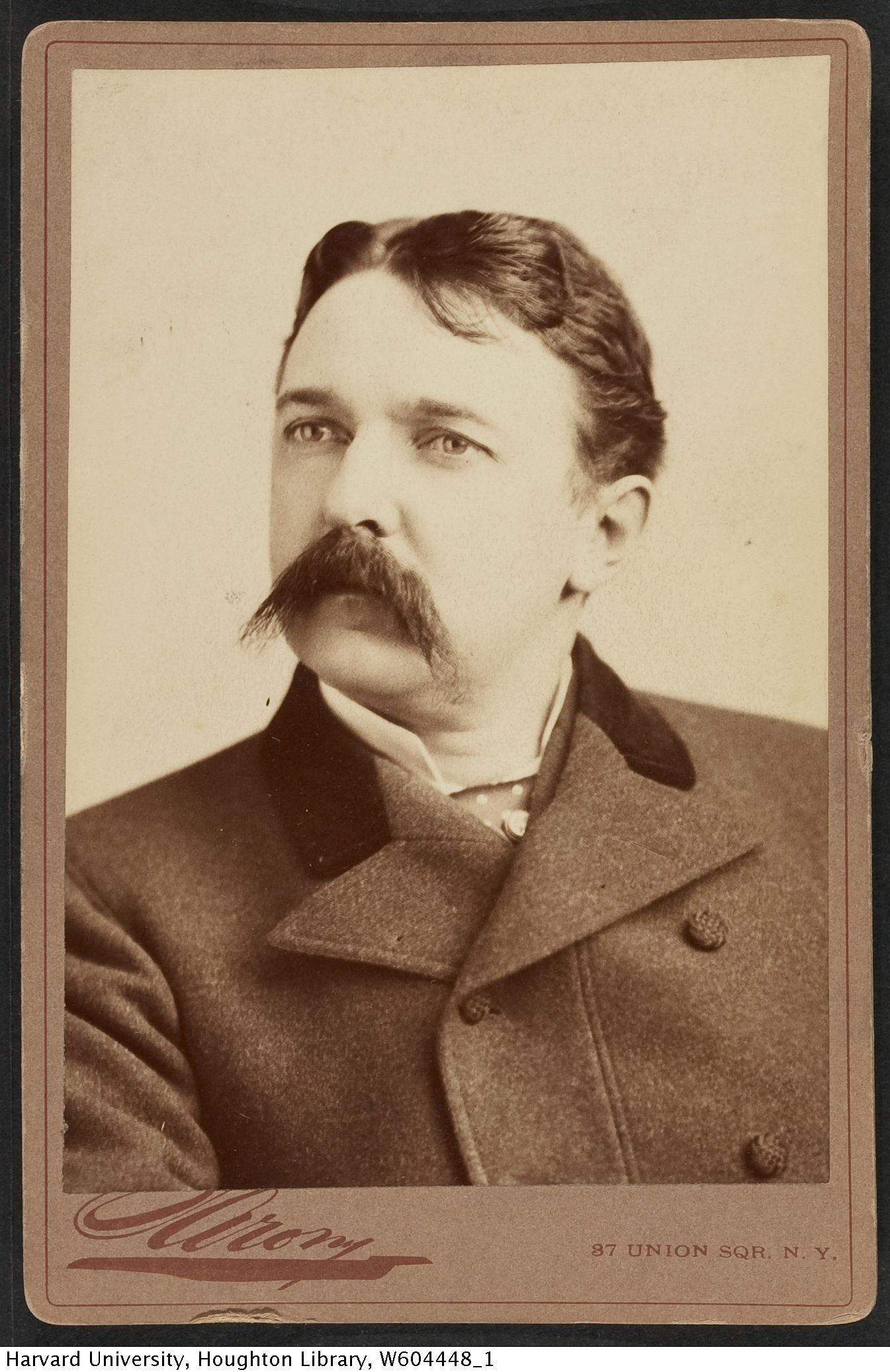 Cabinet card image of American theater manager and producer Henry Eugene Abbey (1846-1896). TCS 1.6, Harvard Theatre Collection, Harvard Univeristy